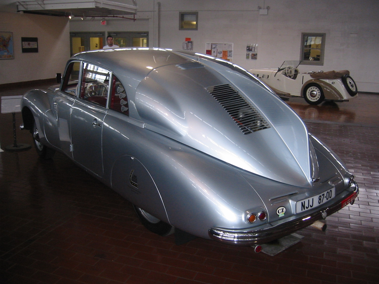 American Automobile Culture: Cars from the Lane Motor Museum Czech-made 1947 Tatra T-87 Saloon, showing the characteristic rear shark's fin and windowless rear engine cowling at the Lane Motor Museum in Nashville, Tennessee (USA) automobile, car, lane motor museum, museum, nashville, tennessee, usa, tatra. czech, unique, streamlined